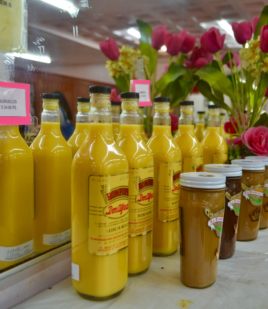 Bottles of eggnog and traditional caramel in different flavors of the Celaya Candy Store in the Roma neighborhood in Mexico City.